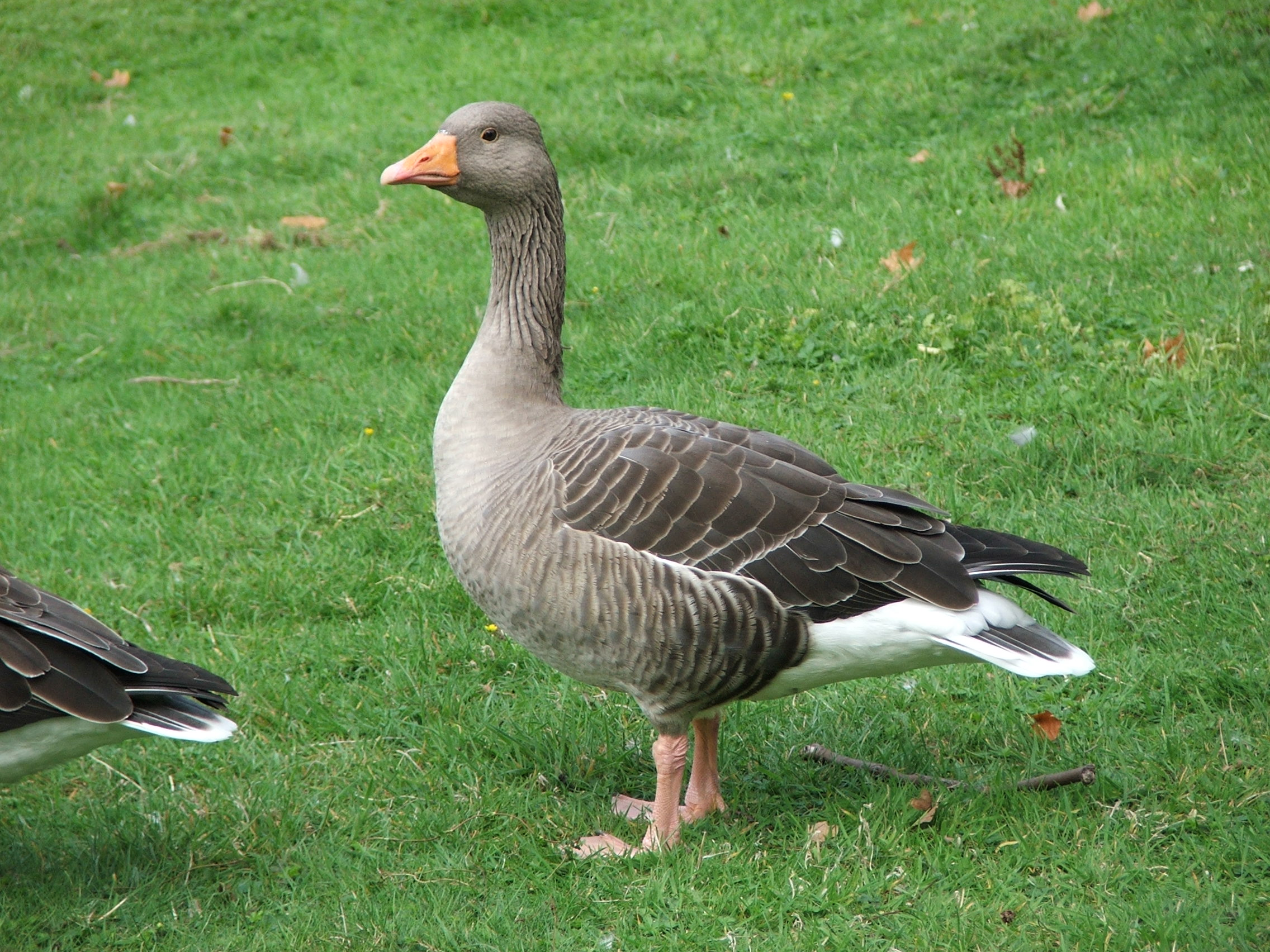 Anser anser in St James Park, London, England